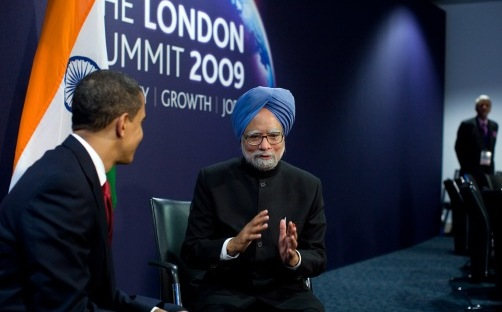 President Barack Obama meets with Indian Prime Minister Manhohan Singh during a bilateral meeting at the G-20 Summit in London, April 2, 2009.